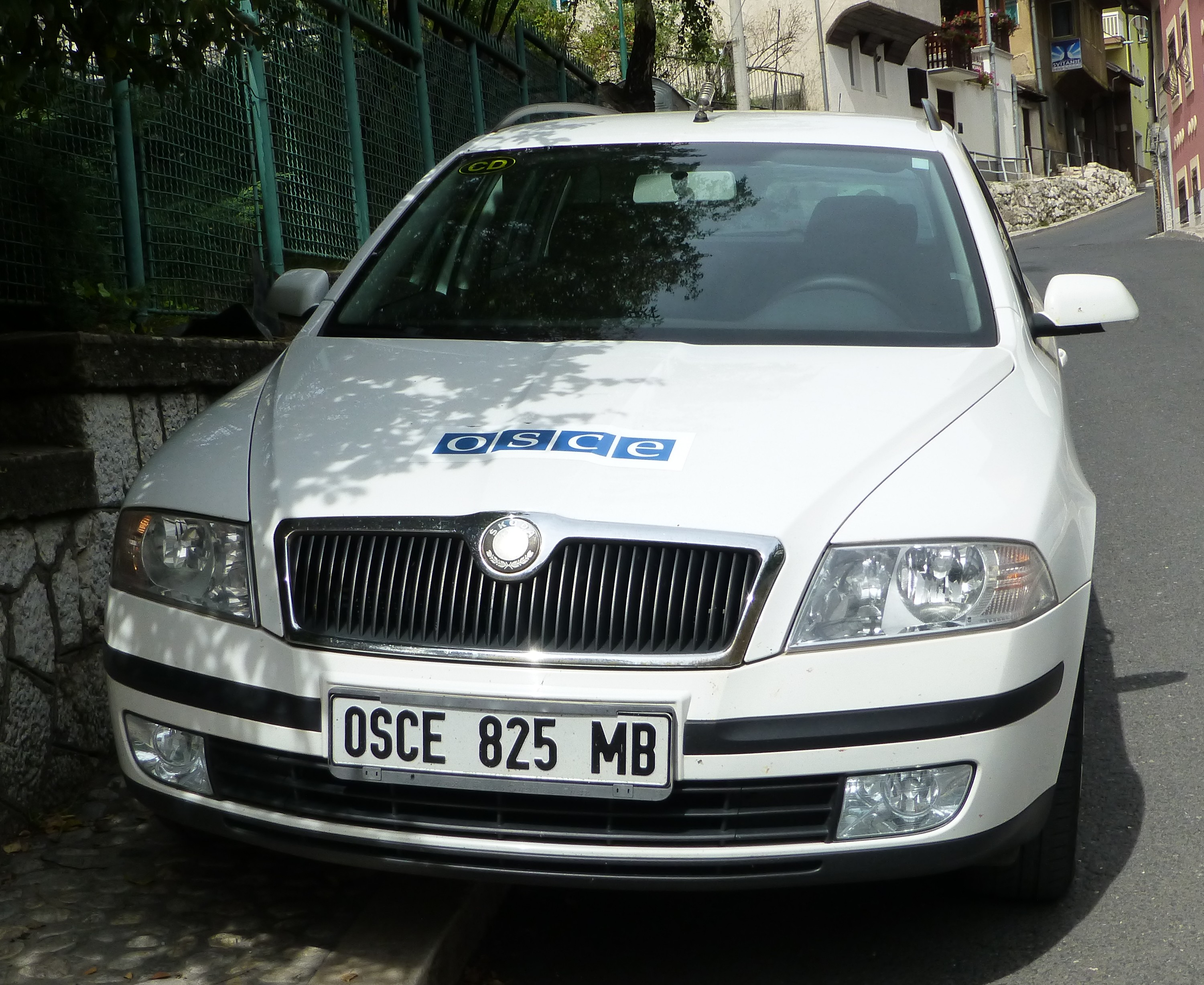 Škoda Octavia of the OSCE in Sarajevo, Bonsia and Herzegovina